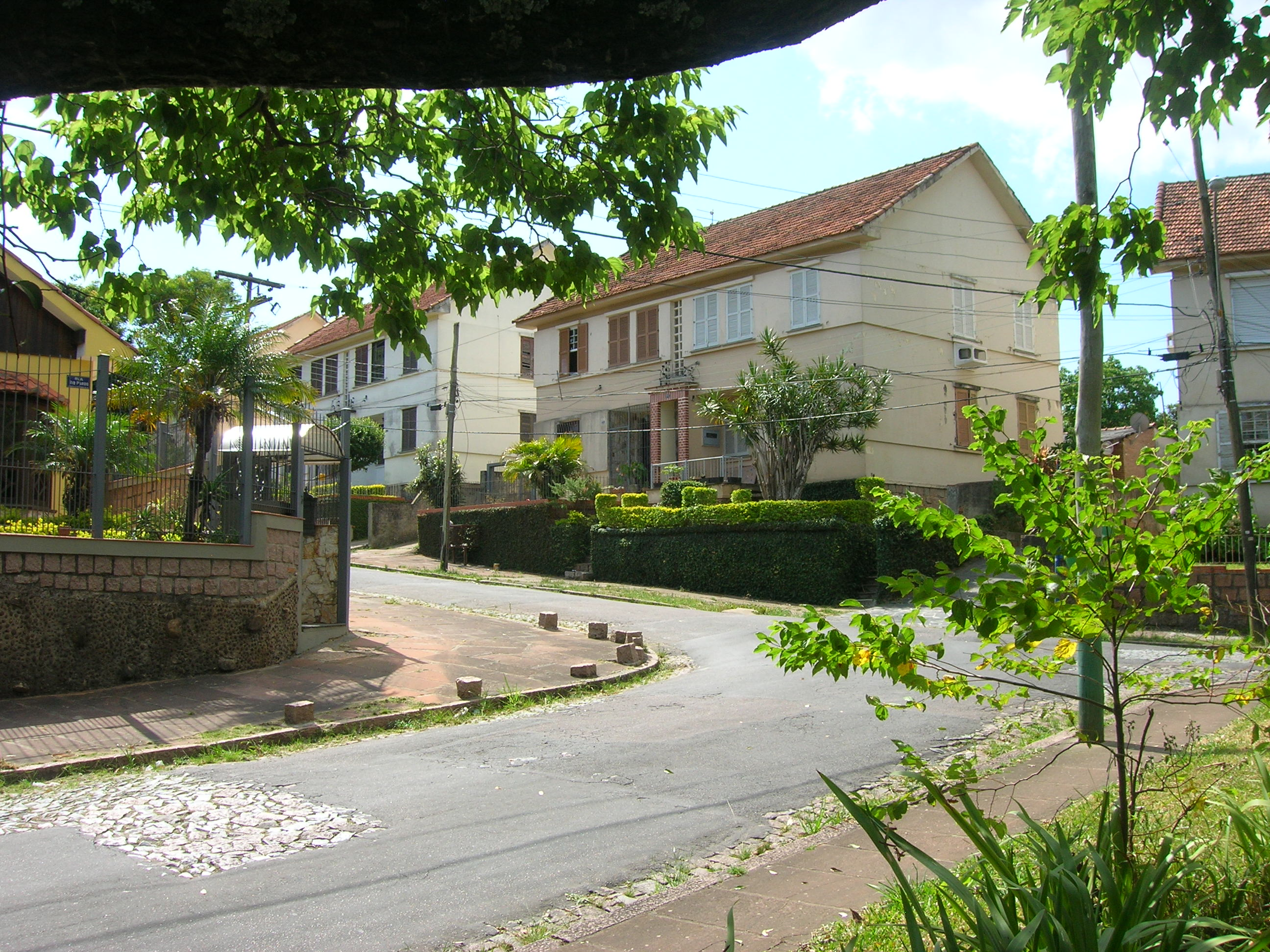 The confluence of "Novo Hamburgo" and "Rio Pardo" Streets, in Vila do IAPI, Passo d'Areia neighborhood, Porto Alegre City, Brazil.